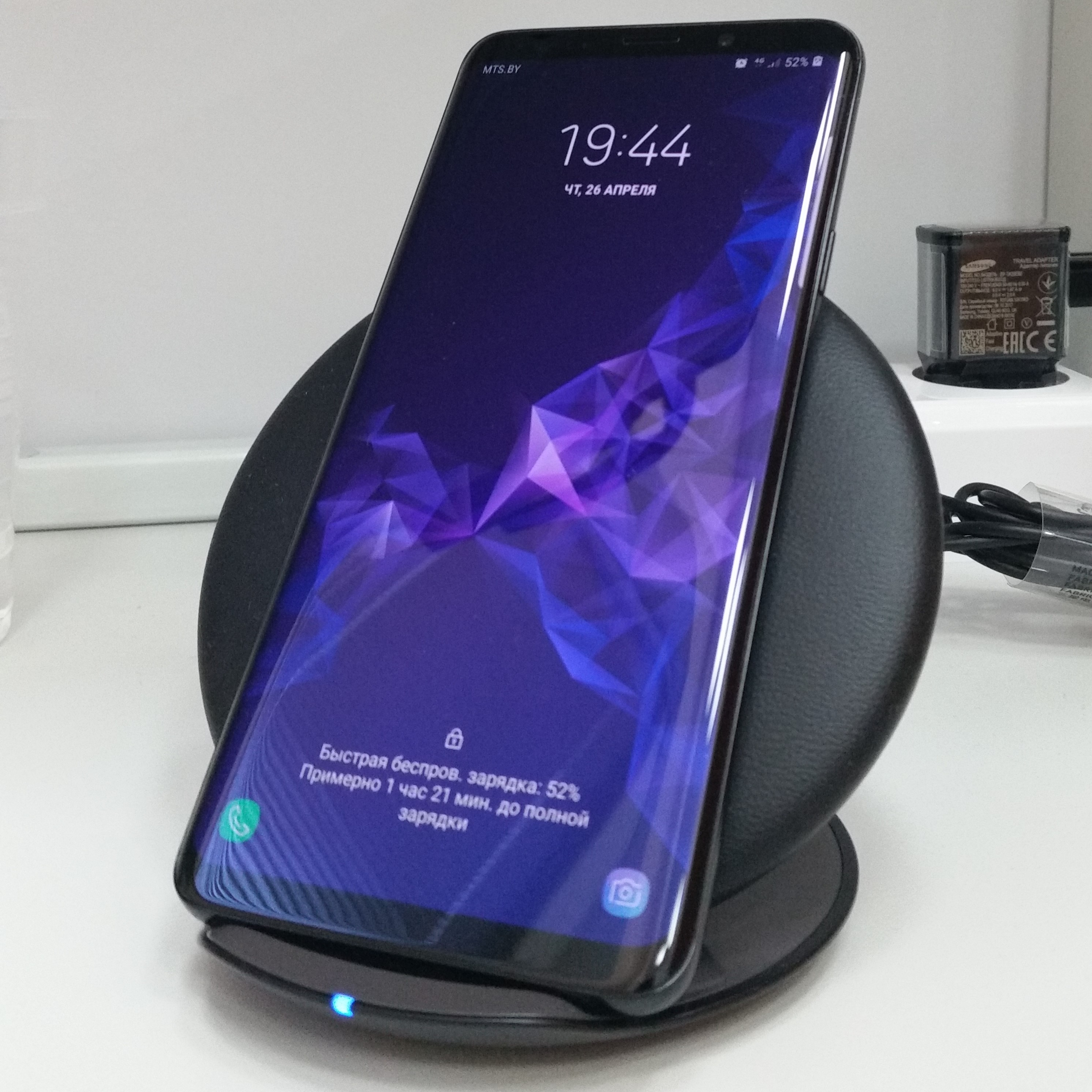 Samsung Galaxy S9+ is charged with a wireless charger.